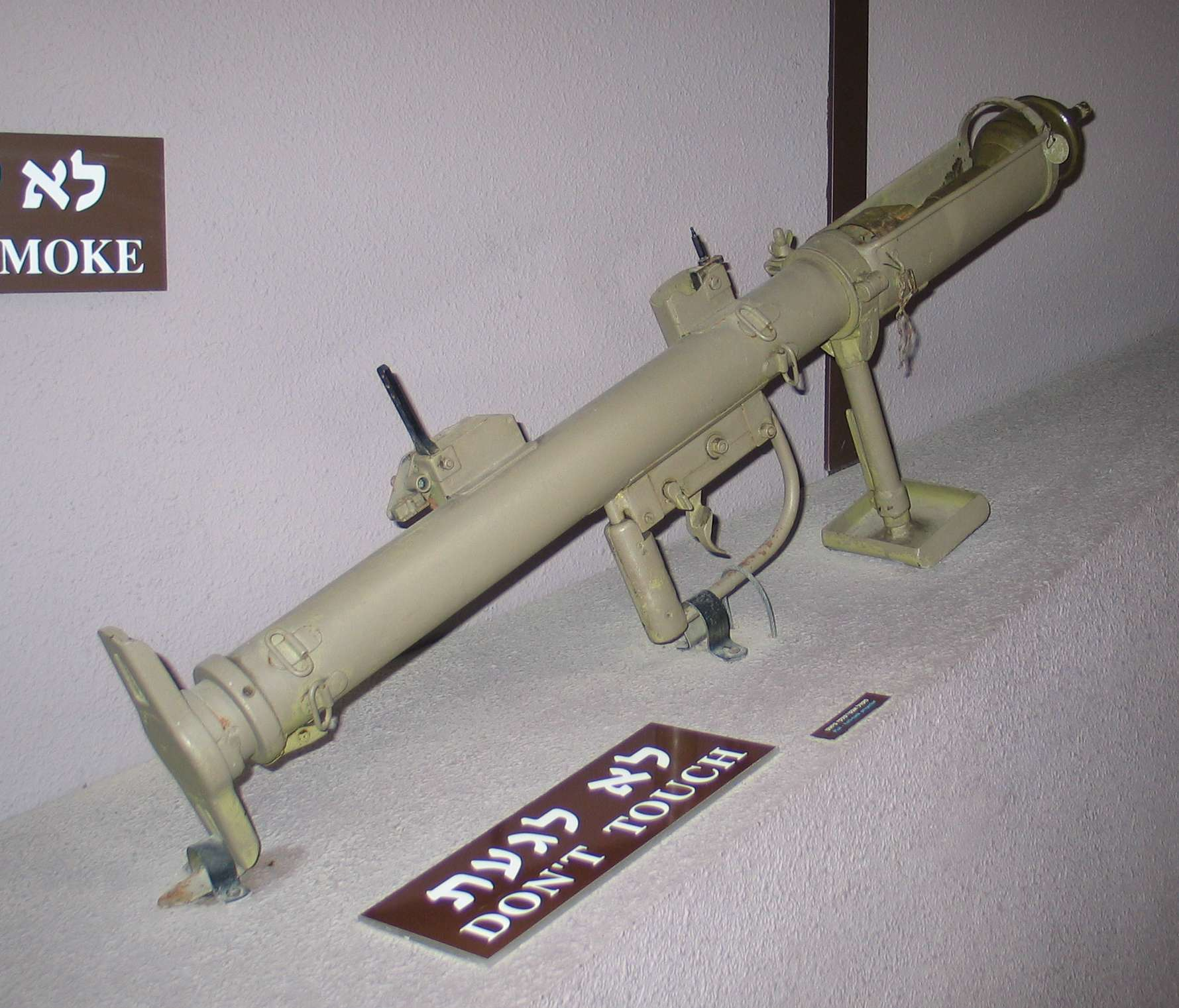 Etzel in 1948 museum (Beyt Gidi), Tel Aviv, Israel.